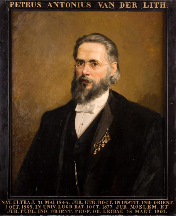 Pieter Anthonie van der Lith (1844-1901), professor islamic law (Mohammedaansch Recht) at Leiden University